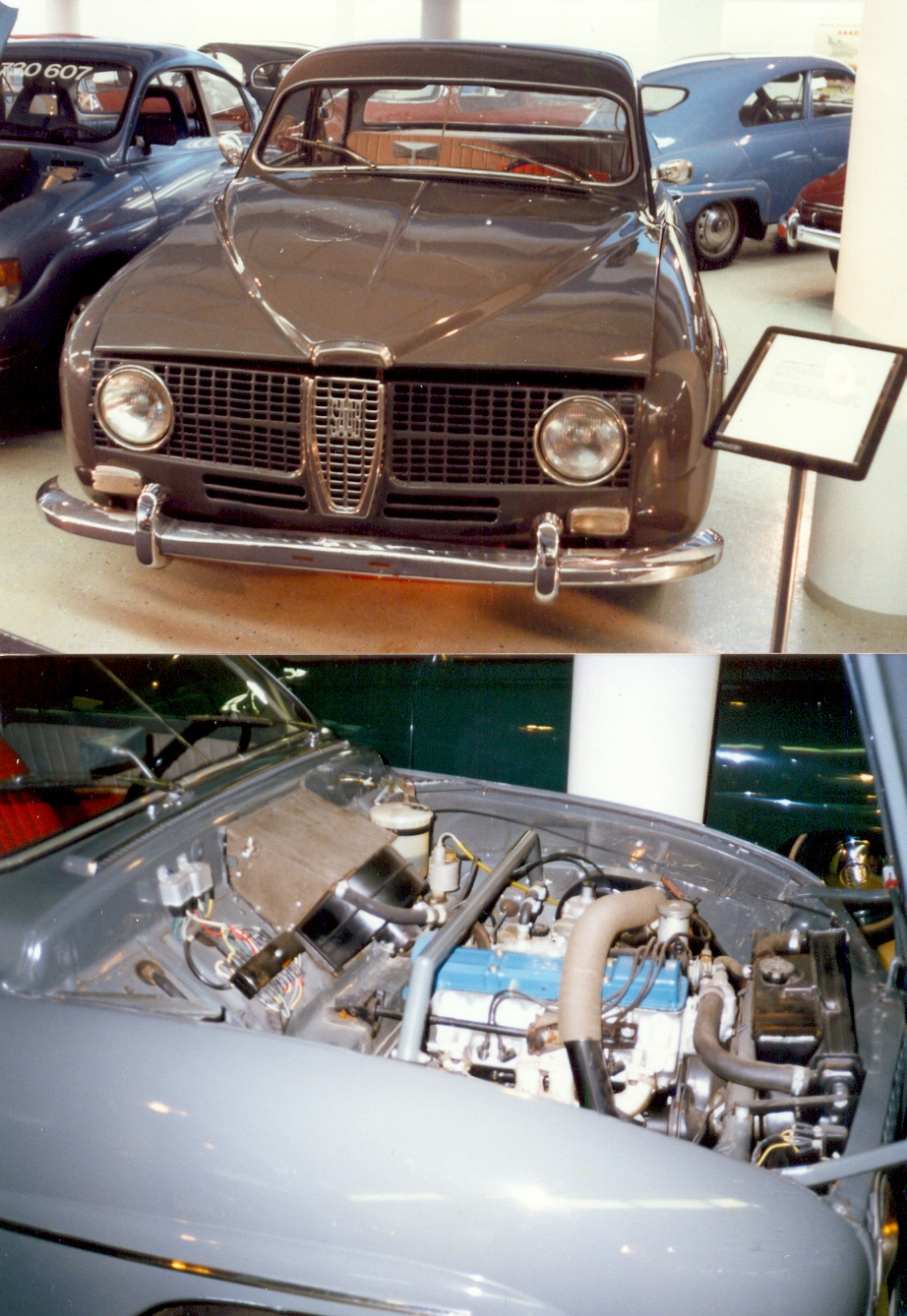 SAAB Paddan (Toad), disguised vehicle used for testing the SAAB 99 chassis.